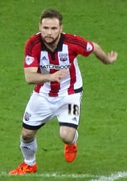 Alan Judge, Brentford footballer, during a match against Cardiff City.